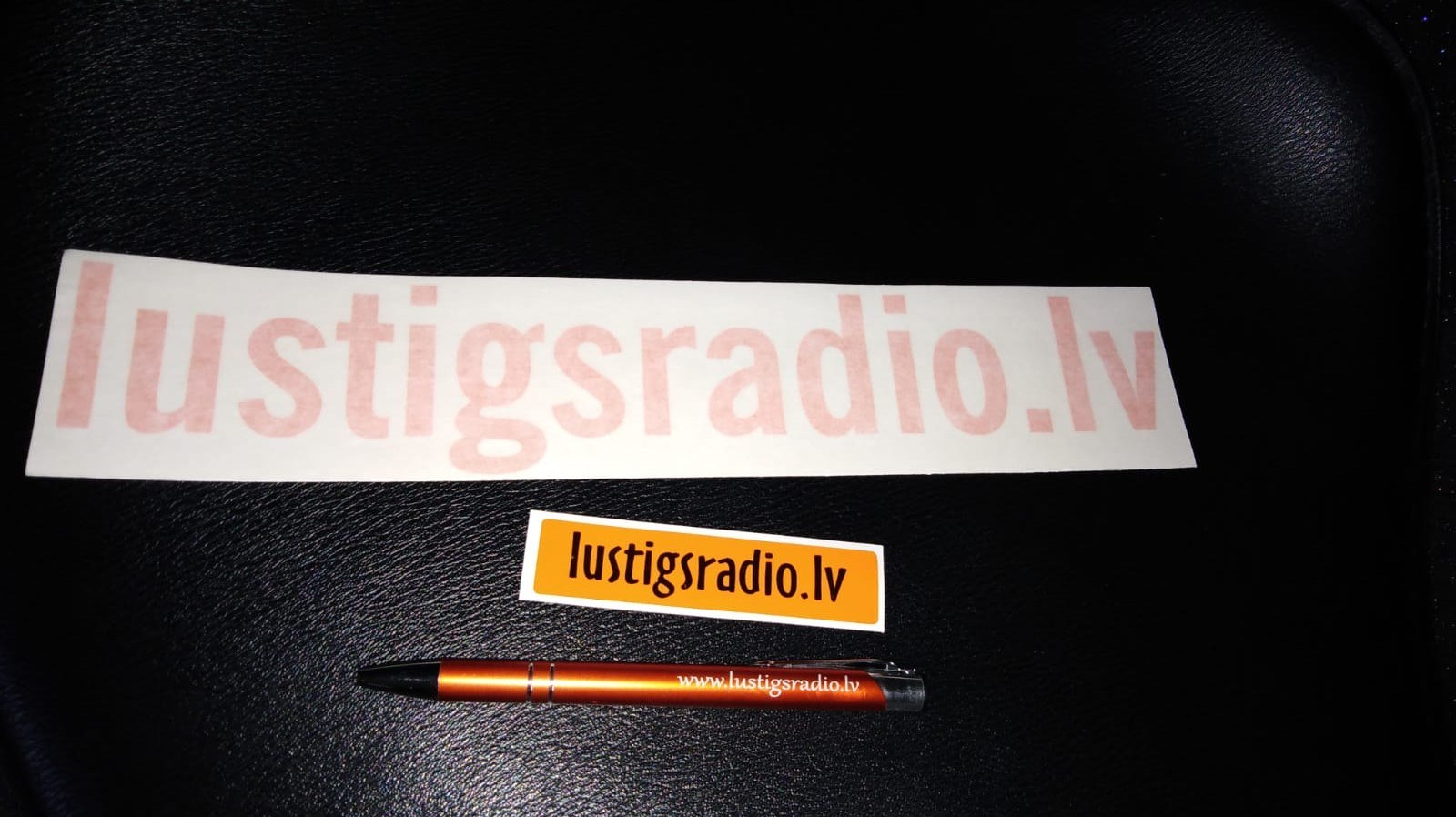 LustigsRadio